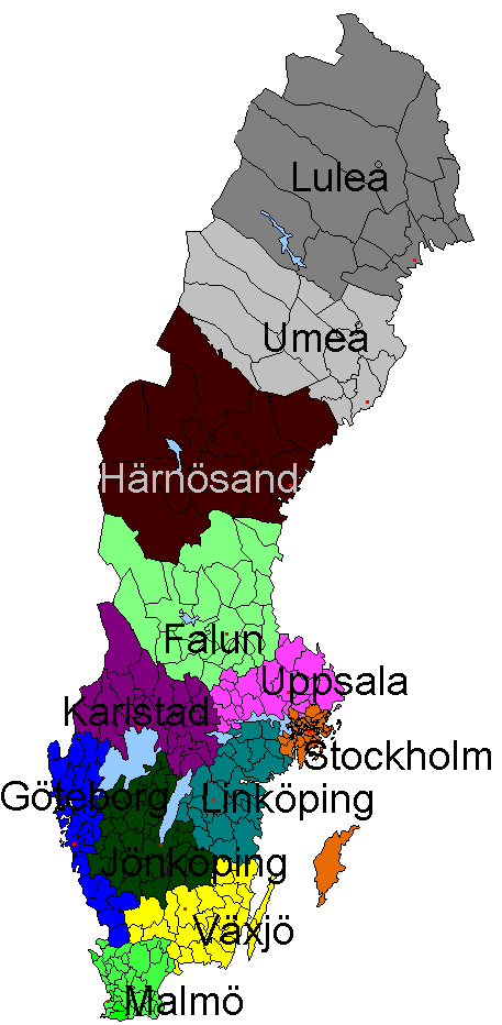 nya domstolsindelningen i sverige